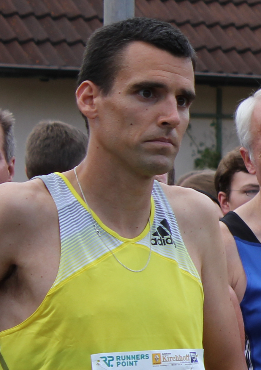 Koen Raymaekers 2013 in Schortens